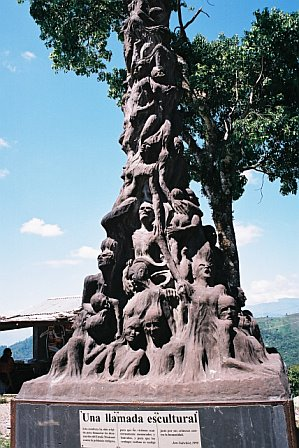 Acteal Column of Infamy